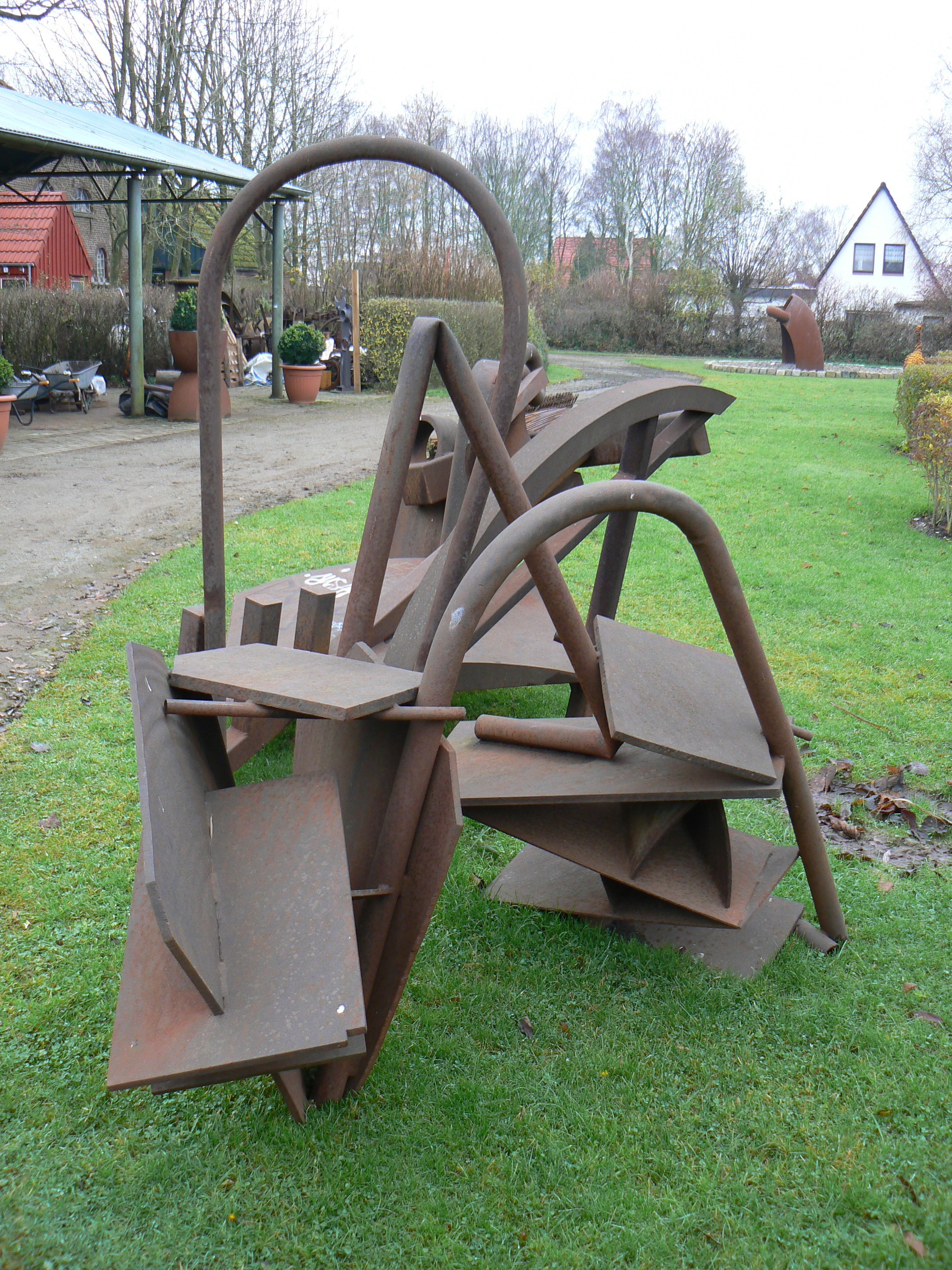 sculptures by David Lee Thompson in Funnix/Germany